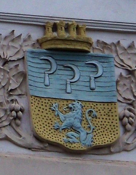 Prague-Košíře, the Czech Republic. Plzeňská street, former town hall. - OpenStreetMap(Info)